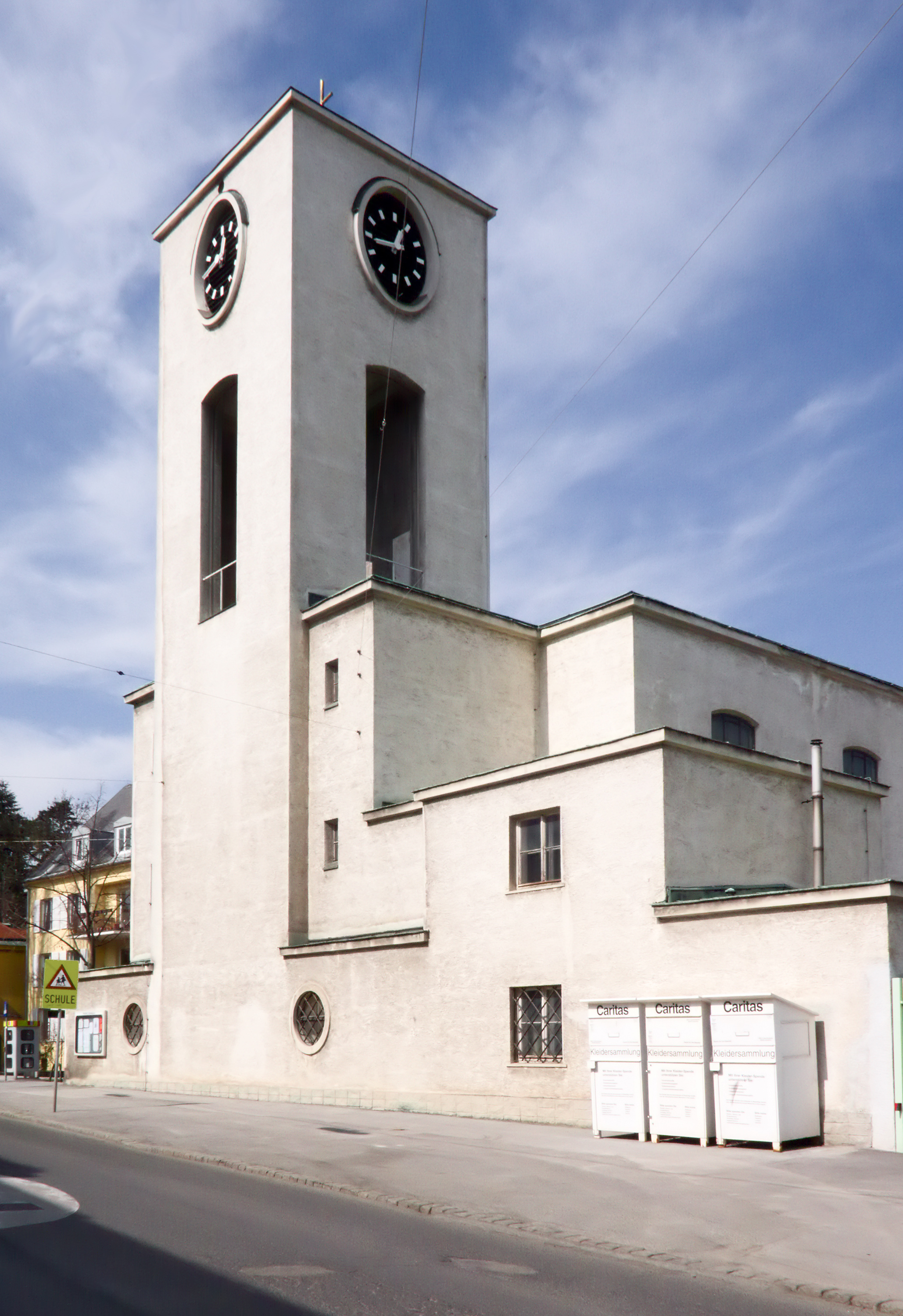 Pfarrkirche Dornbach in Vienna Hernals